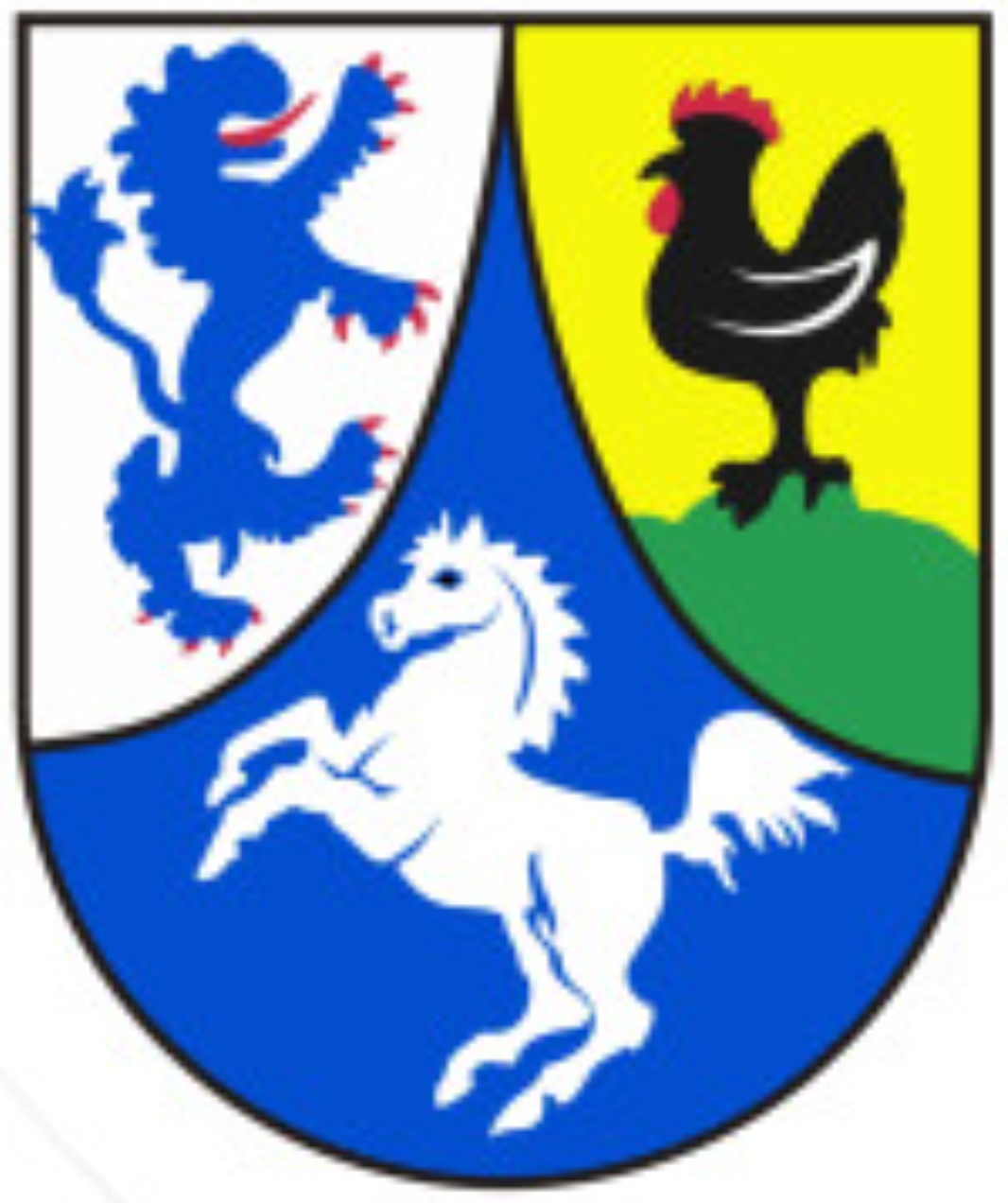 Coat of Arms of Marisfeld